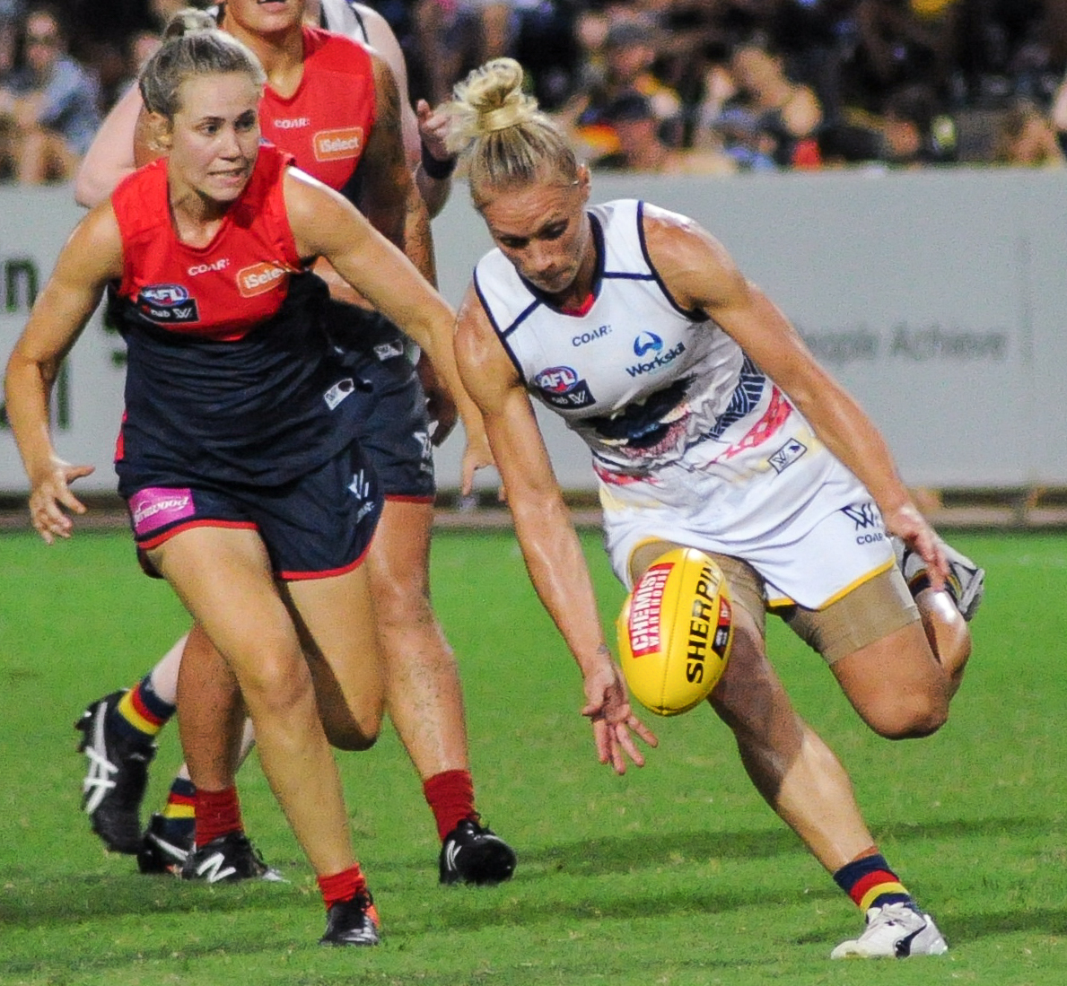 Erin Phillips kicking away from Elise Strachan during the AFL Women's round six match between Adelaide and Melbourne on 11 March 2017 at TIO Stadium in Darwin, Northern Territory